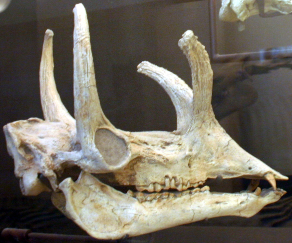 joined horn and double horn Visit my blog at